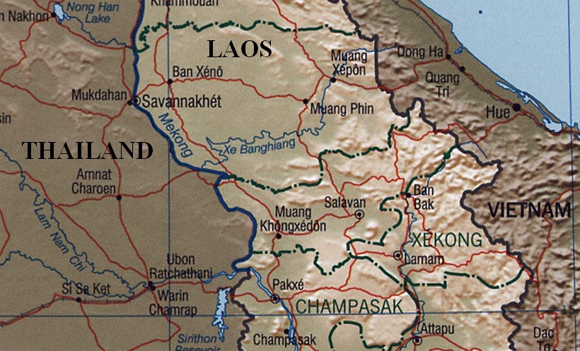 Banghiang River, Savannakhet Province, Salavan Province, Xekong Province of Lao PDR. Tributary of the Mekong.